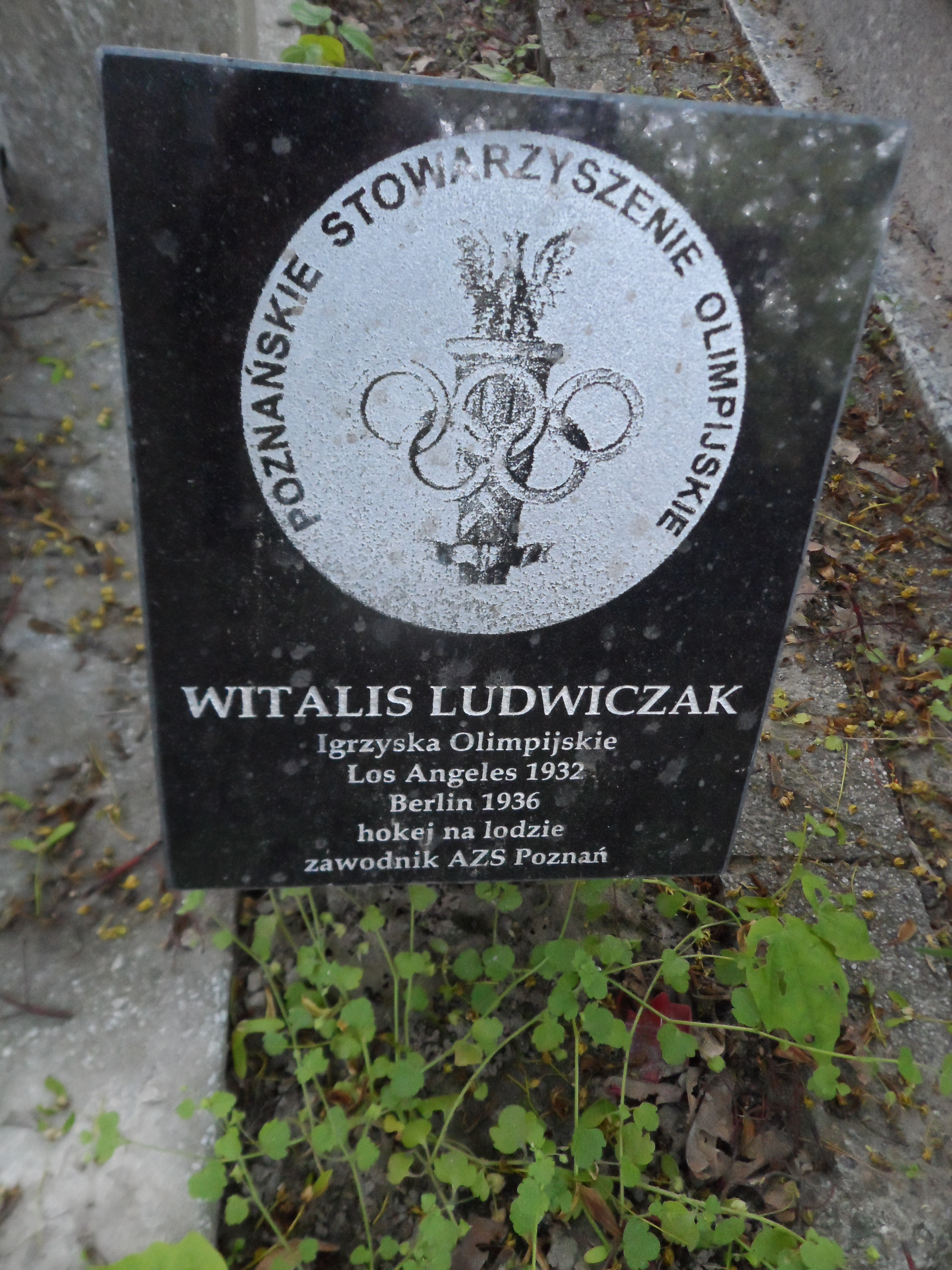 Commemorative plaque of Witalis Ludwiczak (1910-1988). "Olympic Games, Los Angeles 1932, Berlin 1936, ice hockey, AZS Poznań player".